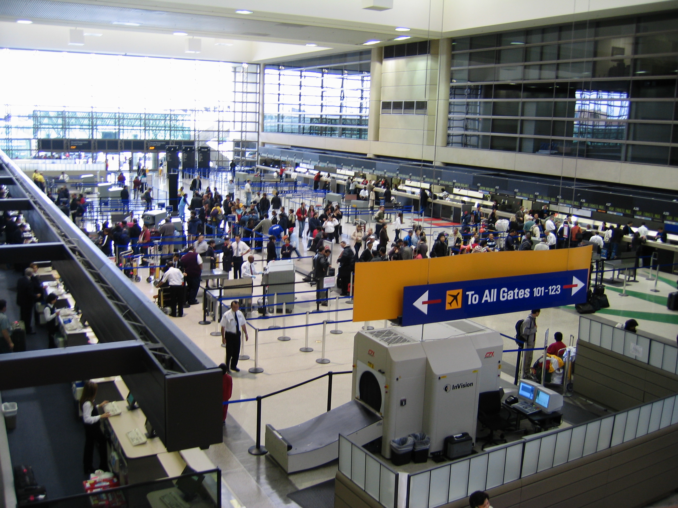 International check-in hall at LAX